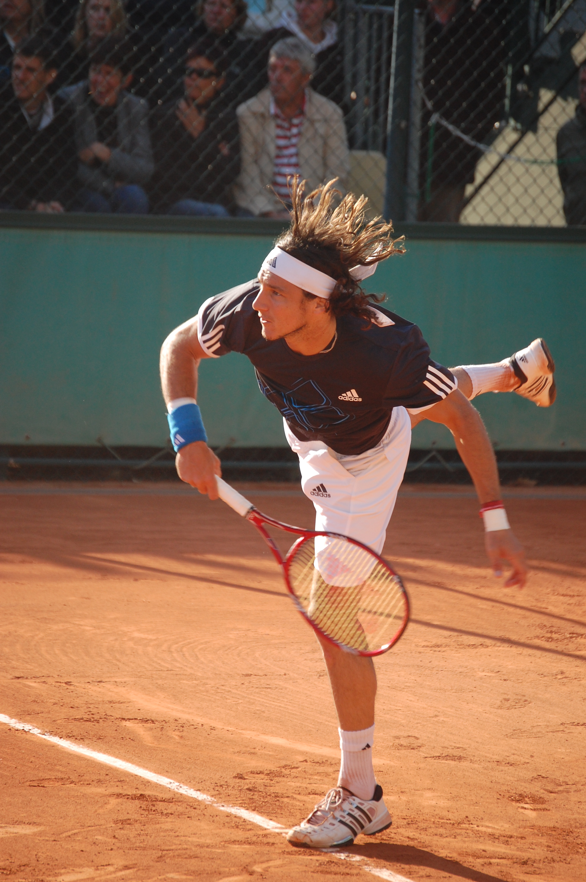 Juan Monaco in Roland Garros, 2009 French Open